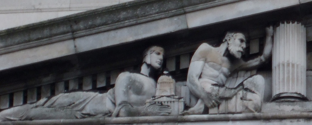 detail of sculpture, exterior, Council House, Nottingham